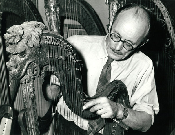 John Sebastian Morley repairing a Ram's Head harp.